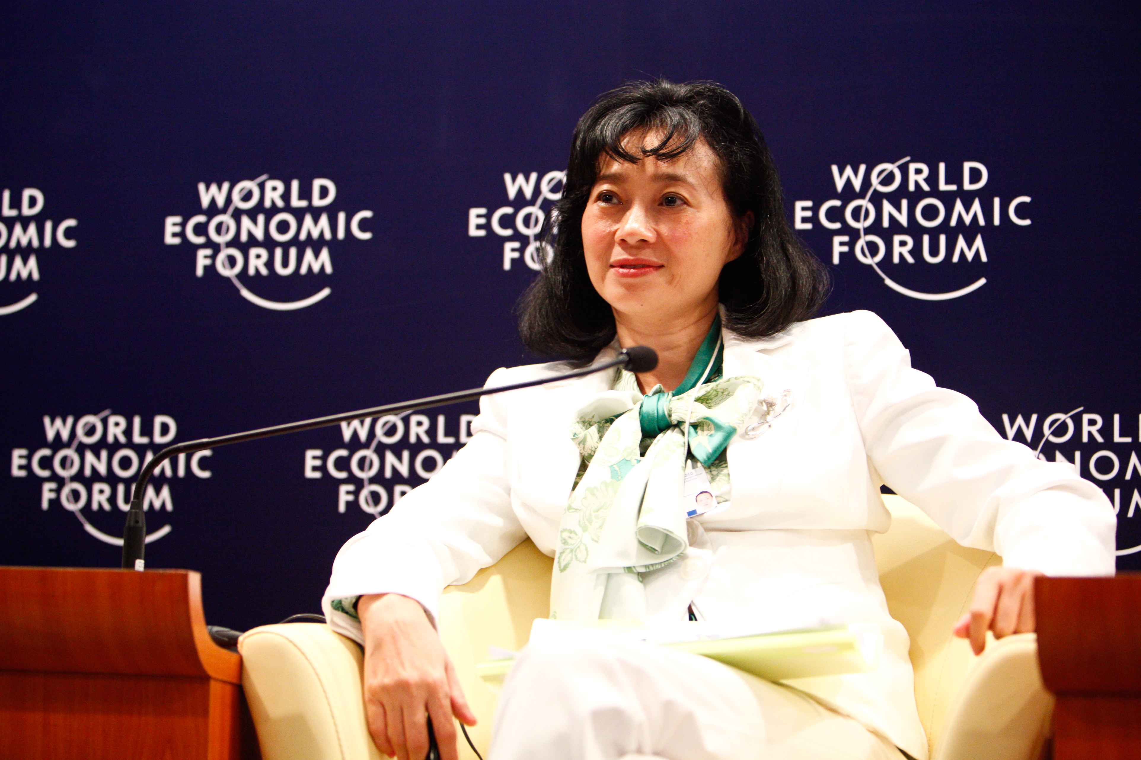 HO CHI MINH CITY/VIETNAM, 7JUN10 - Dang Yen, Chairwoman and Chief Executive Officer, Tan Tao Group, Vietnam captured during the World Economic Forum on East Asia in Ho Chi Minch City, Vietnam, June 7, 2010. Copyright World Economic Forum ( Sikarin Thanachaiary